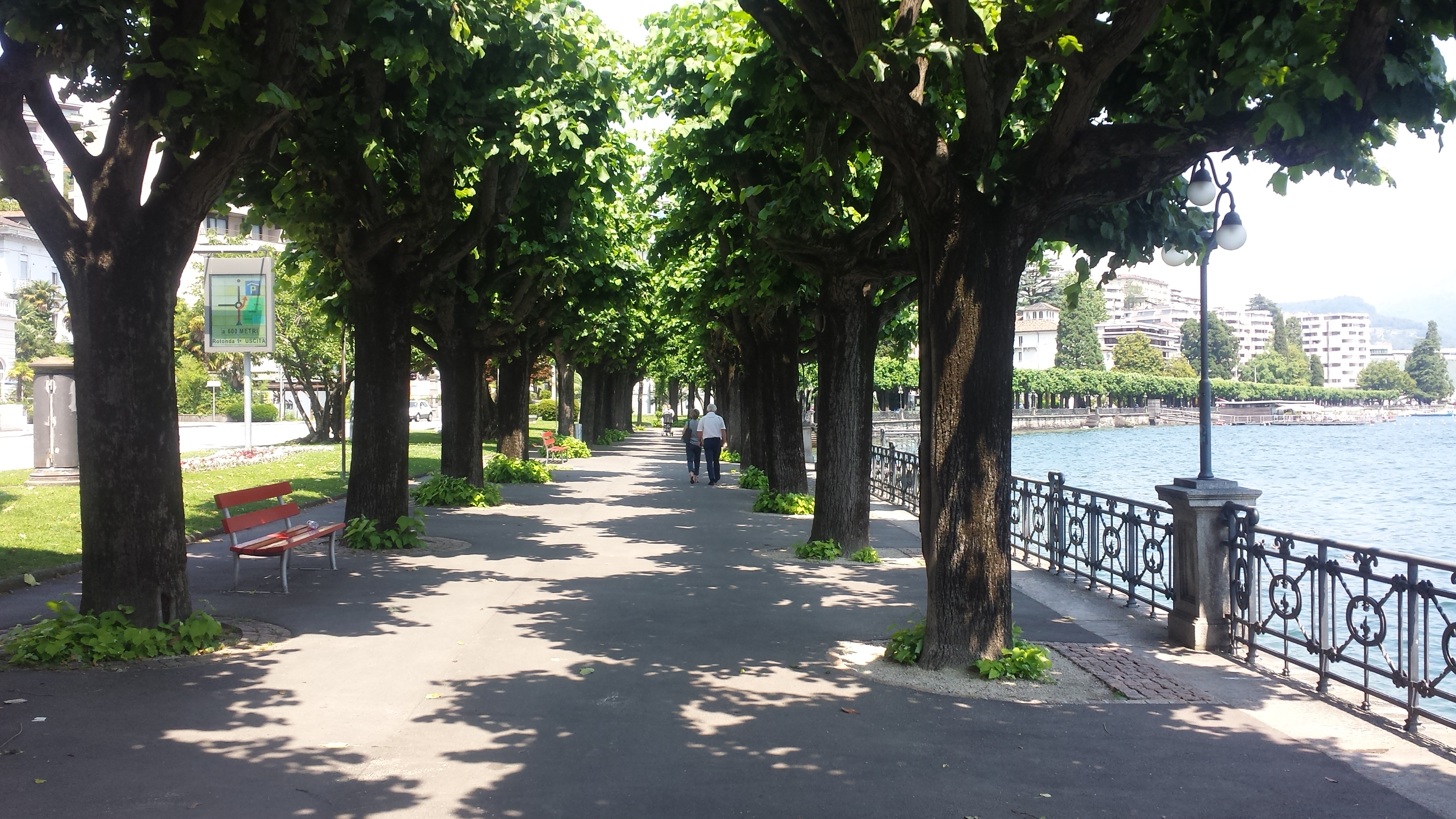 Avenue of trees at the Paradiso end of lakefront Lugano